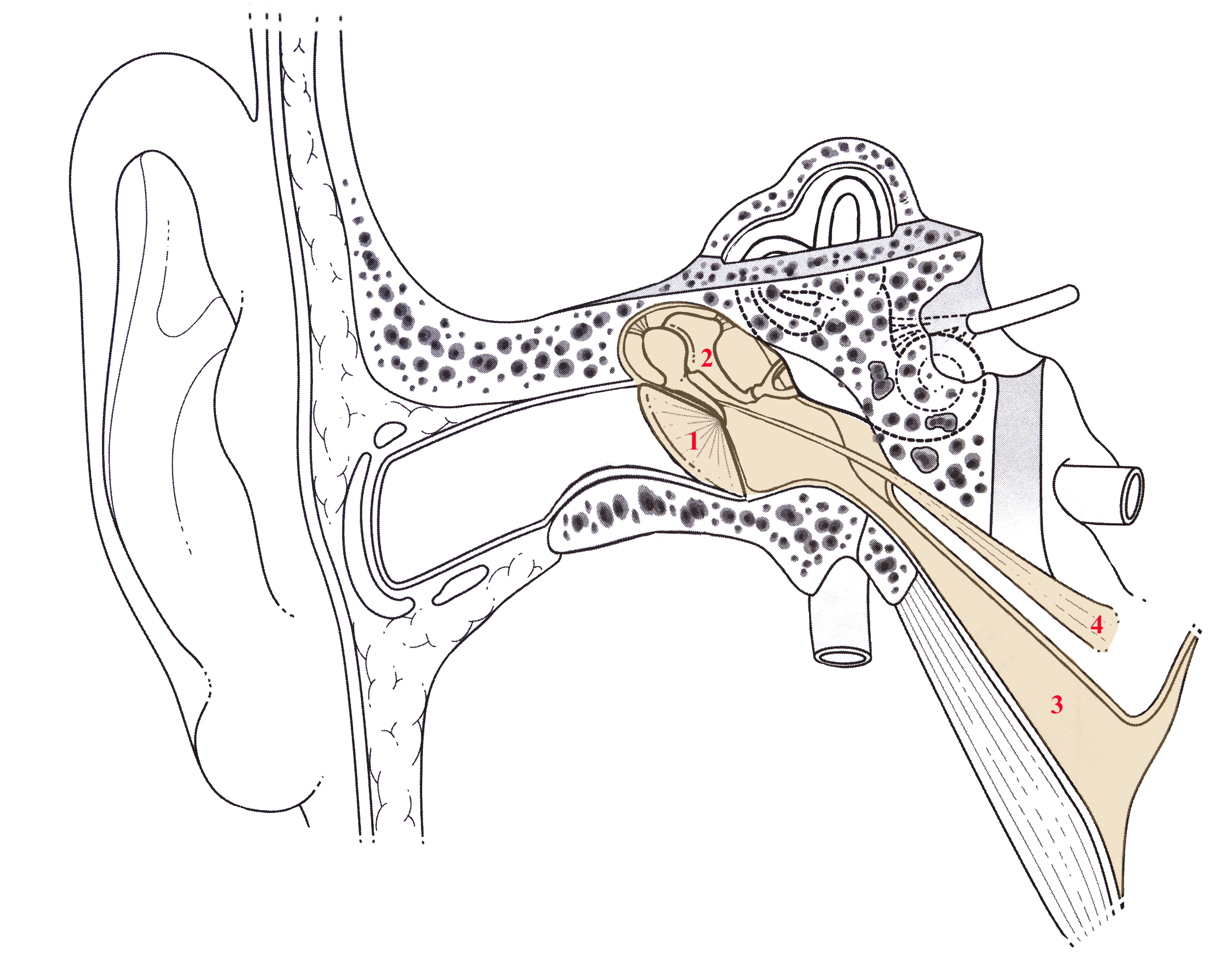 The middle ear : 1)Eardrum 2)Ossicles 3)Eustachian tube 4)Tensor tympani